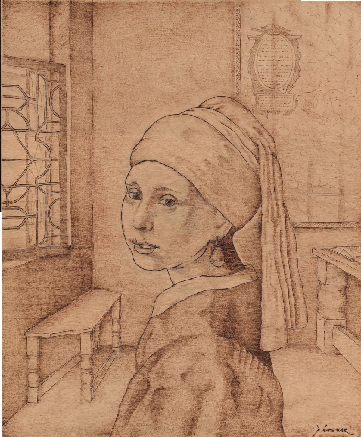 The Girl with Pearl Earring ov Vermeer in the master's room, pyrography created by Párvusz